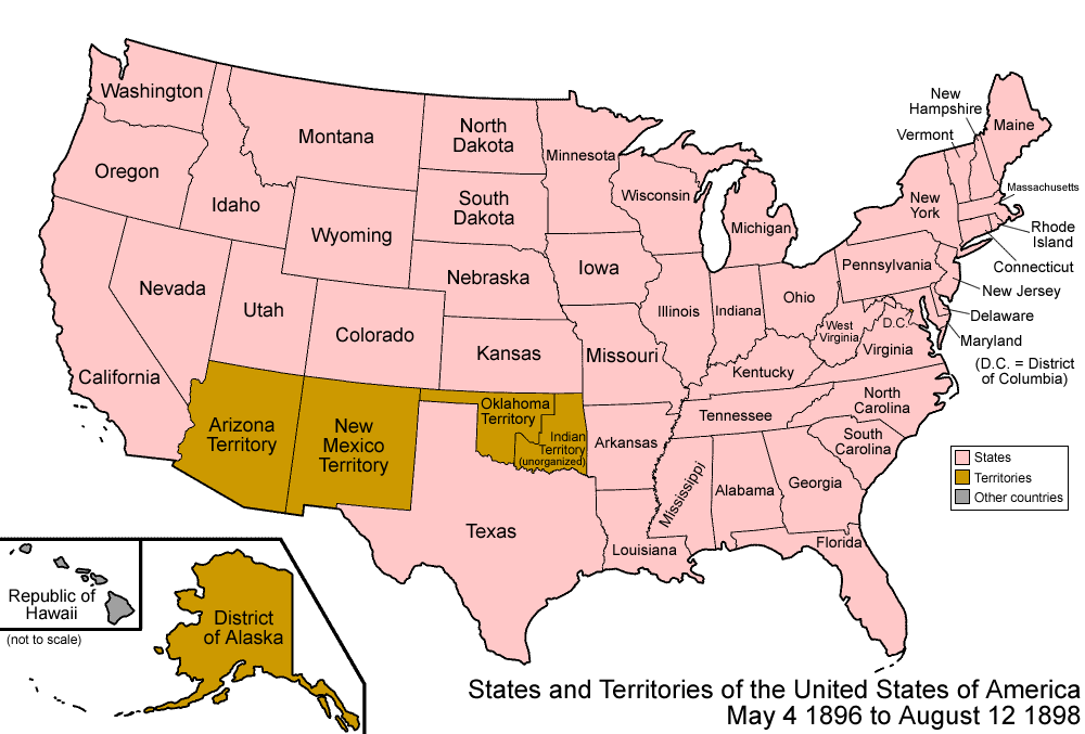 Map of the states and territories of the United States as it was from May 1896 to 1898. On May 4 1896, the Greer County question was finally answered, in Oklahoma Territory's favor. On August 12 1898, the United States annexed the Republic of Hawaii.